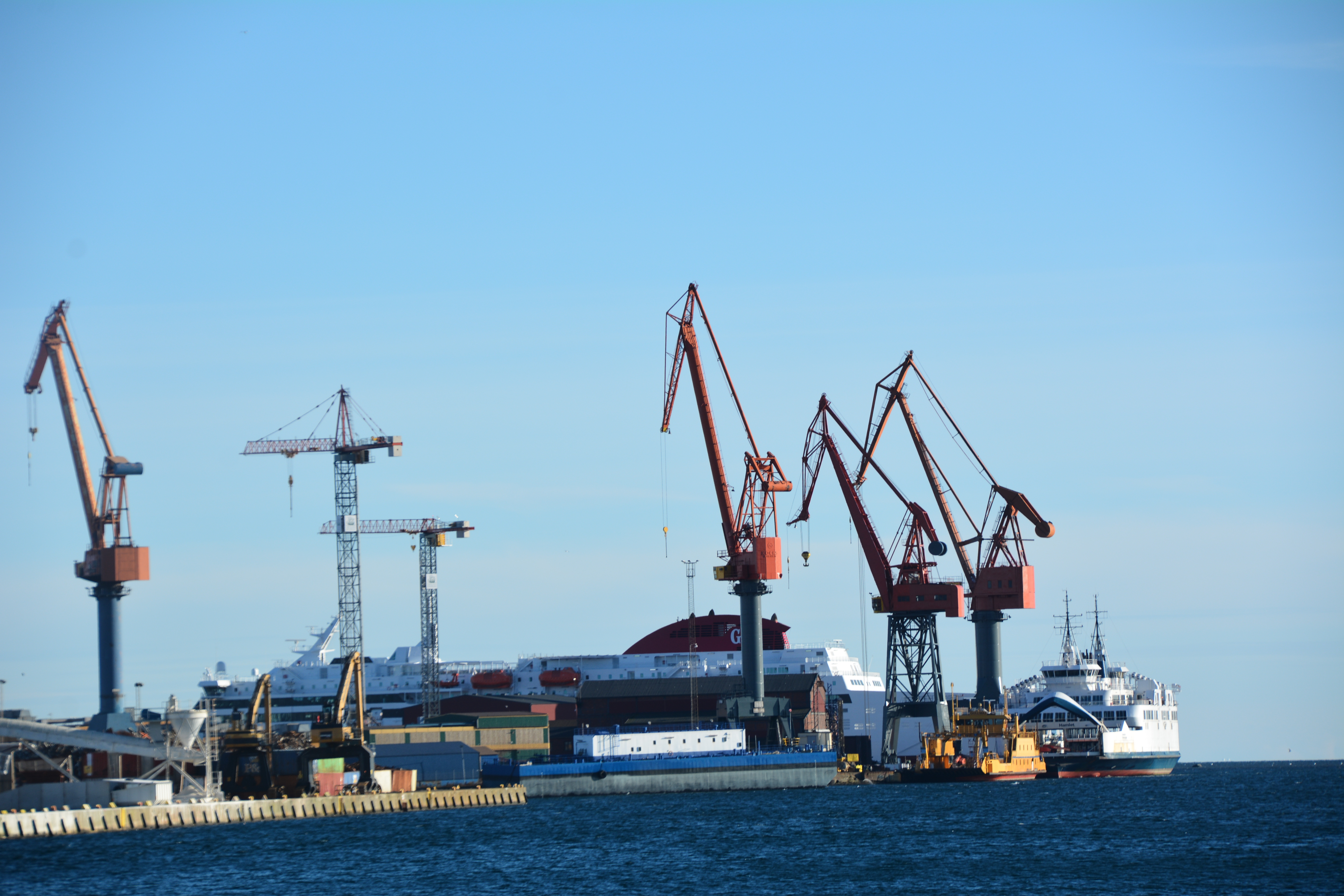 Öresundsvarvet, Landskrona, Sweden